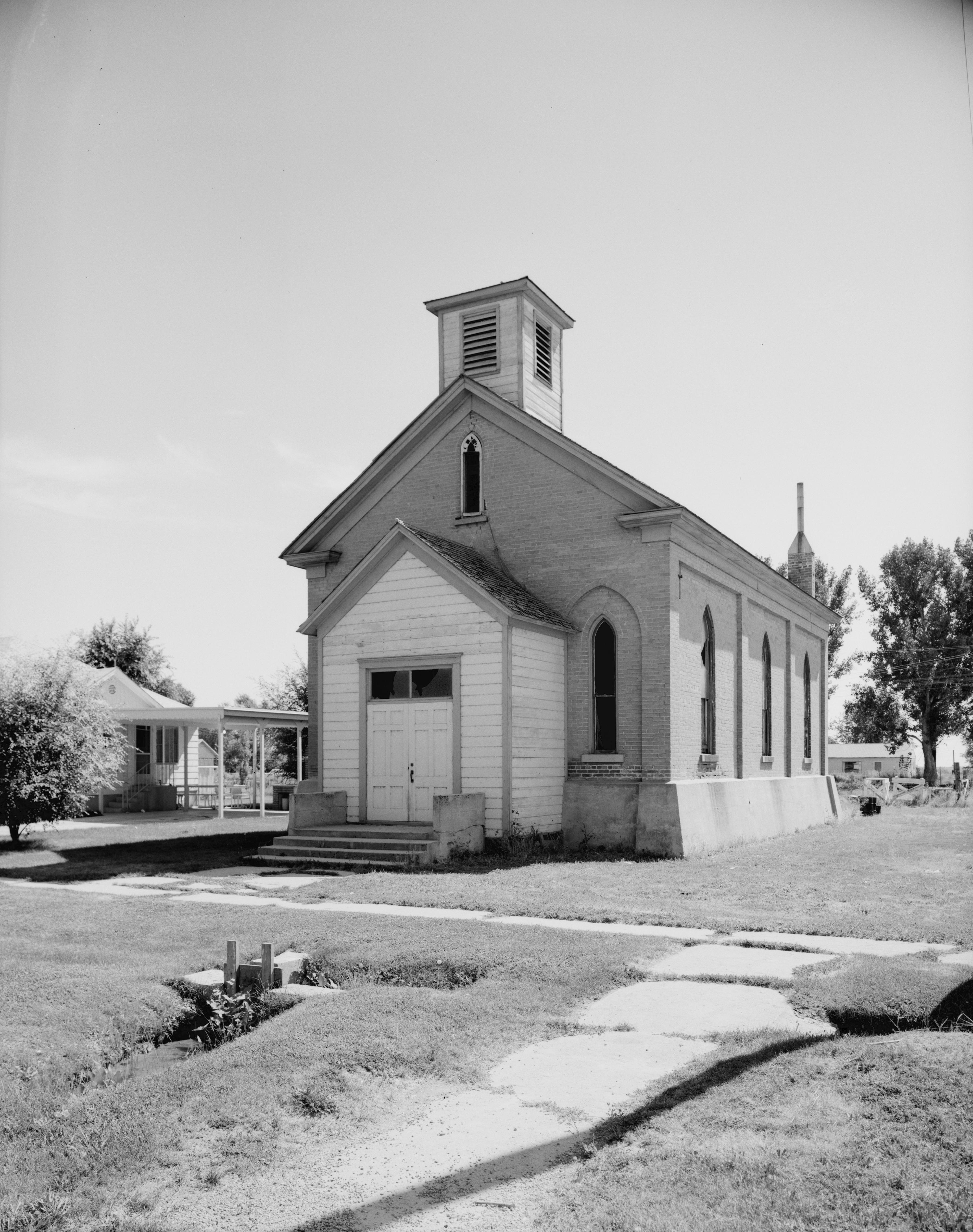 Front of the Corinne Methodist Episcopal Church, located at the intersection of Coronado and South 600 Streets in Corinne, Utah, United States. Built in 1870, it is listed on the National Register of Historic Places.